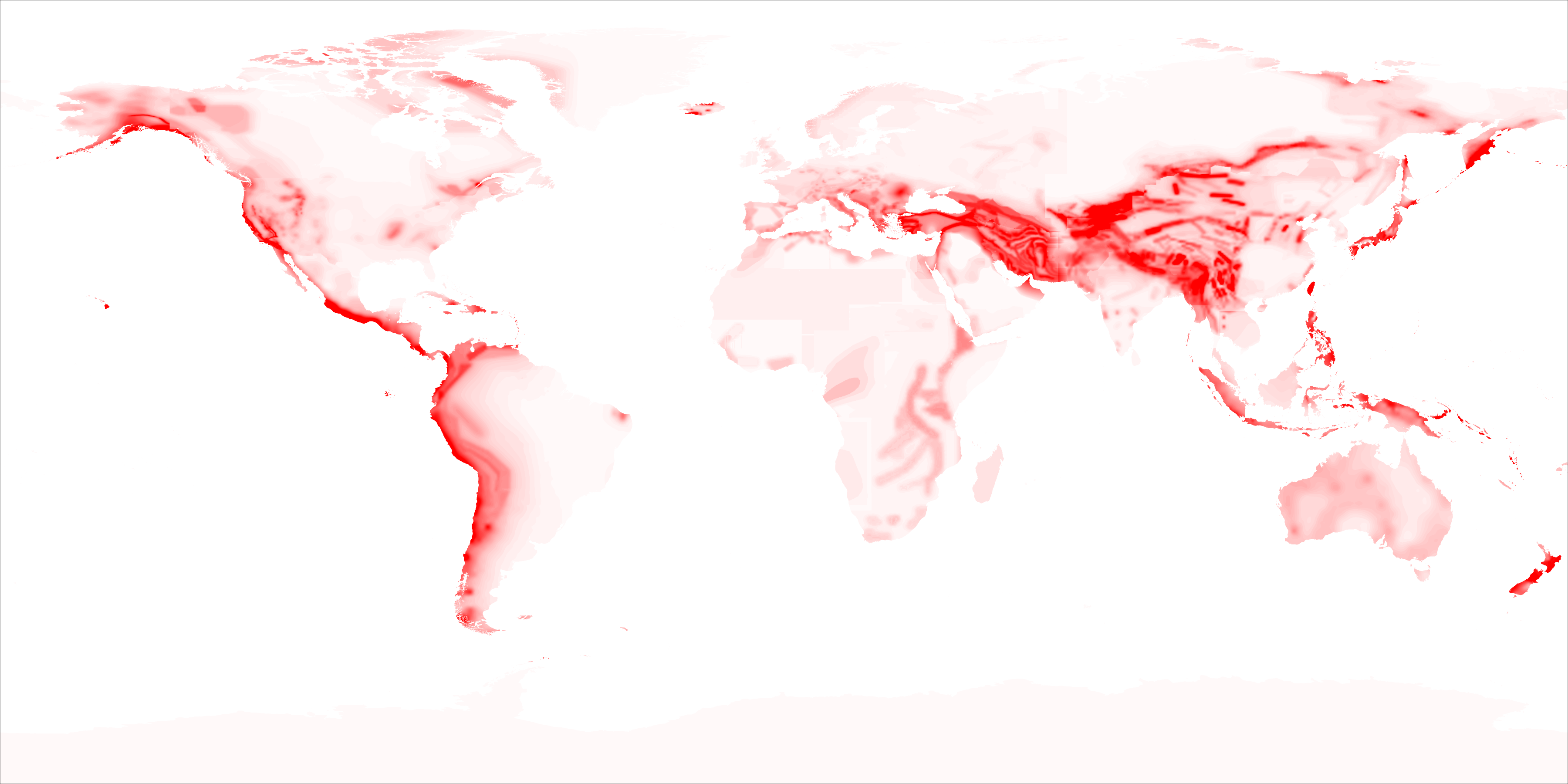 GSHAP Global Seismic Hazard Map